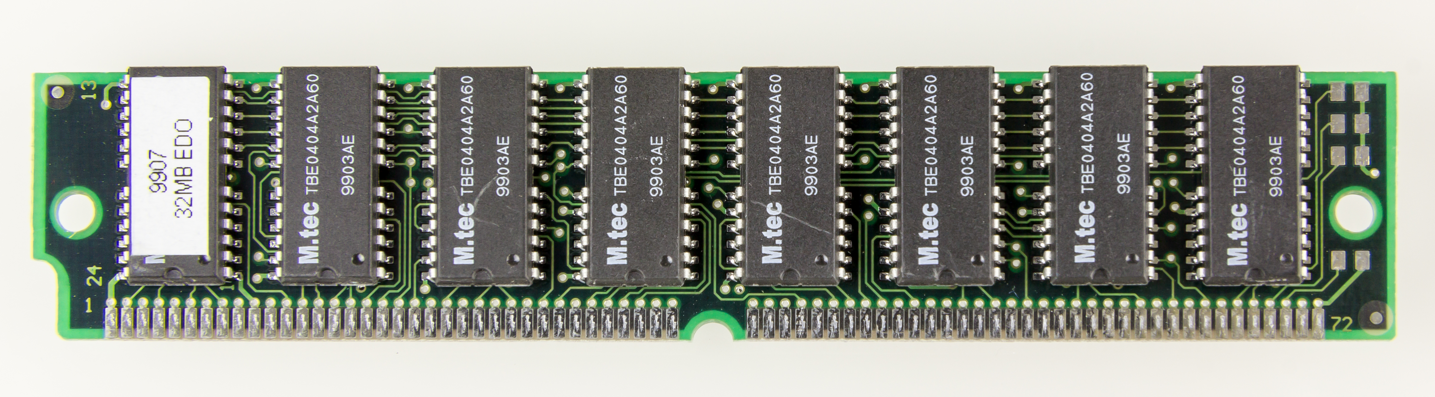 ROCKY-518HV - M.tec B7340C 32MB EDORAM SIMM